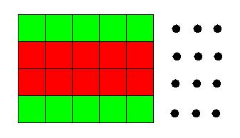 4 × n grid, colored to aid proof of Schwenk's theorem